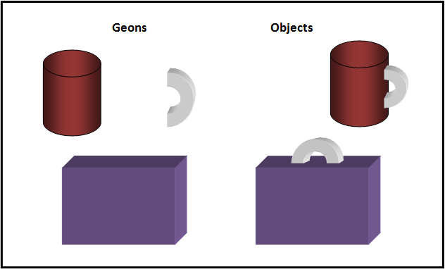 I created this image on my computer. It is an image of the breakdown of objects into "Geons" (a concept created by Irving Biederman).